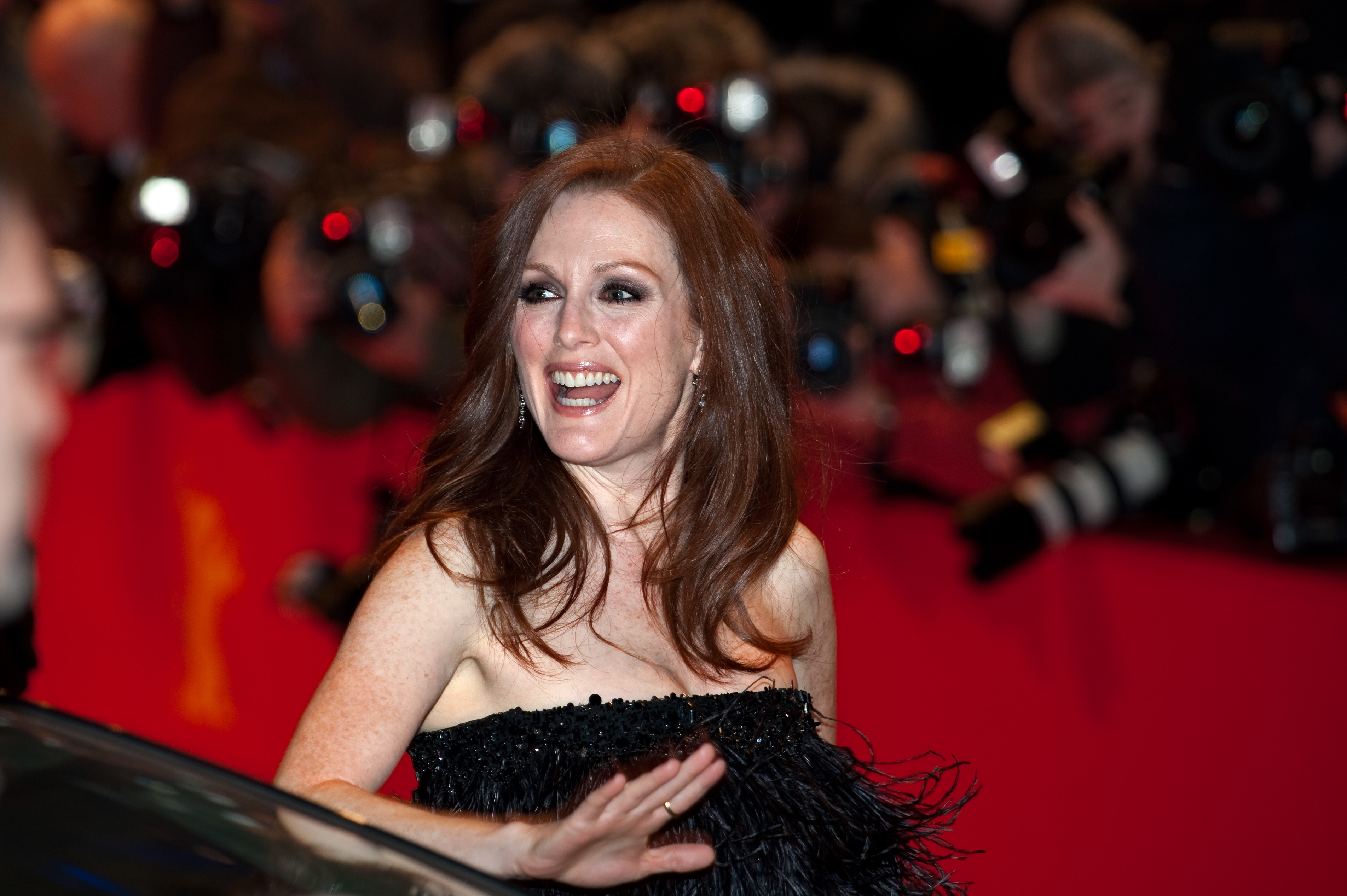 Julianne Moore at the premiere of the movie THE KIDS ARE ALL RIGHT at the 2010 Berlinale